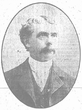 Charles J. Knapp, Congressman from New York